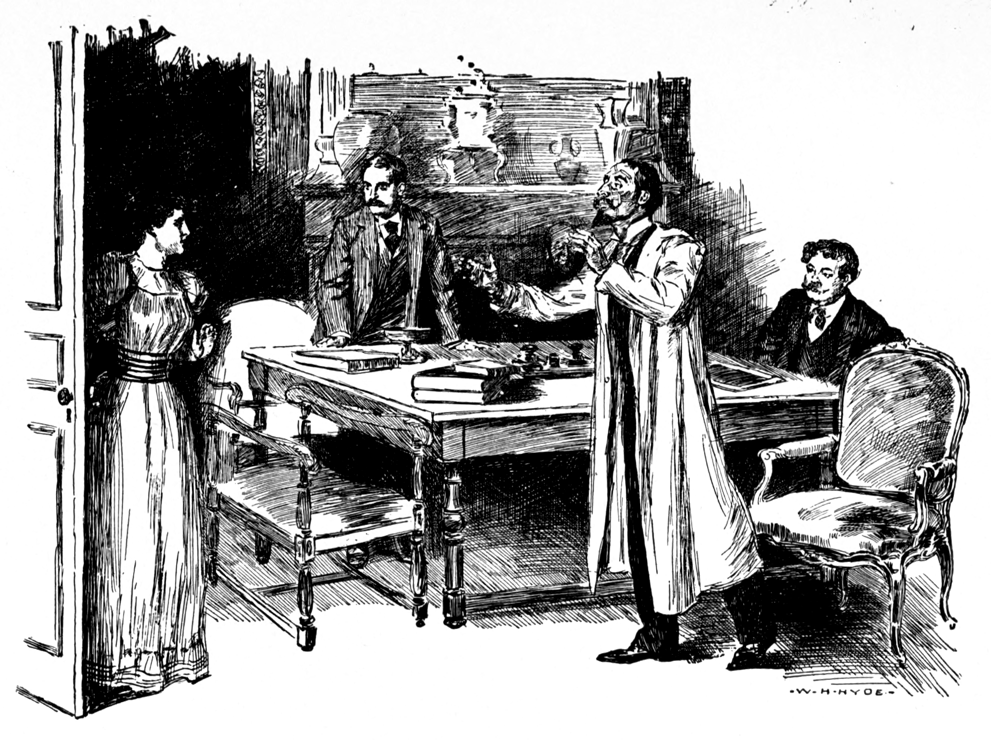 Fourth of the four illustrations included in the edition of Memoirs of Sherlock Holmes by Arthur Conan Doyle published in 1894 by A. L. Burt in New York. It illustrates a scene from "The Adventure of the Greek Interpreter". Original caption in Harper's Weekly was "The man, with a convulsive effort, tore the plaster from his lips."[1]